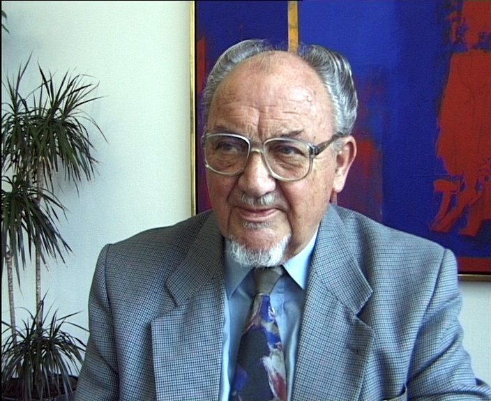 Former prime minister and minister of foreign affairs of Denmark Anker Jørgensen. Photographed during a statement regarding Helle Degn, who was first female member of Danish Folketing to celebrate 25 years of membership.